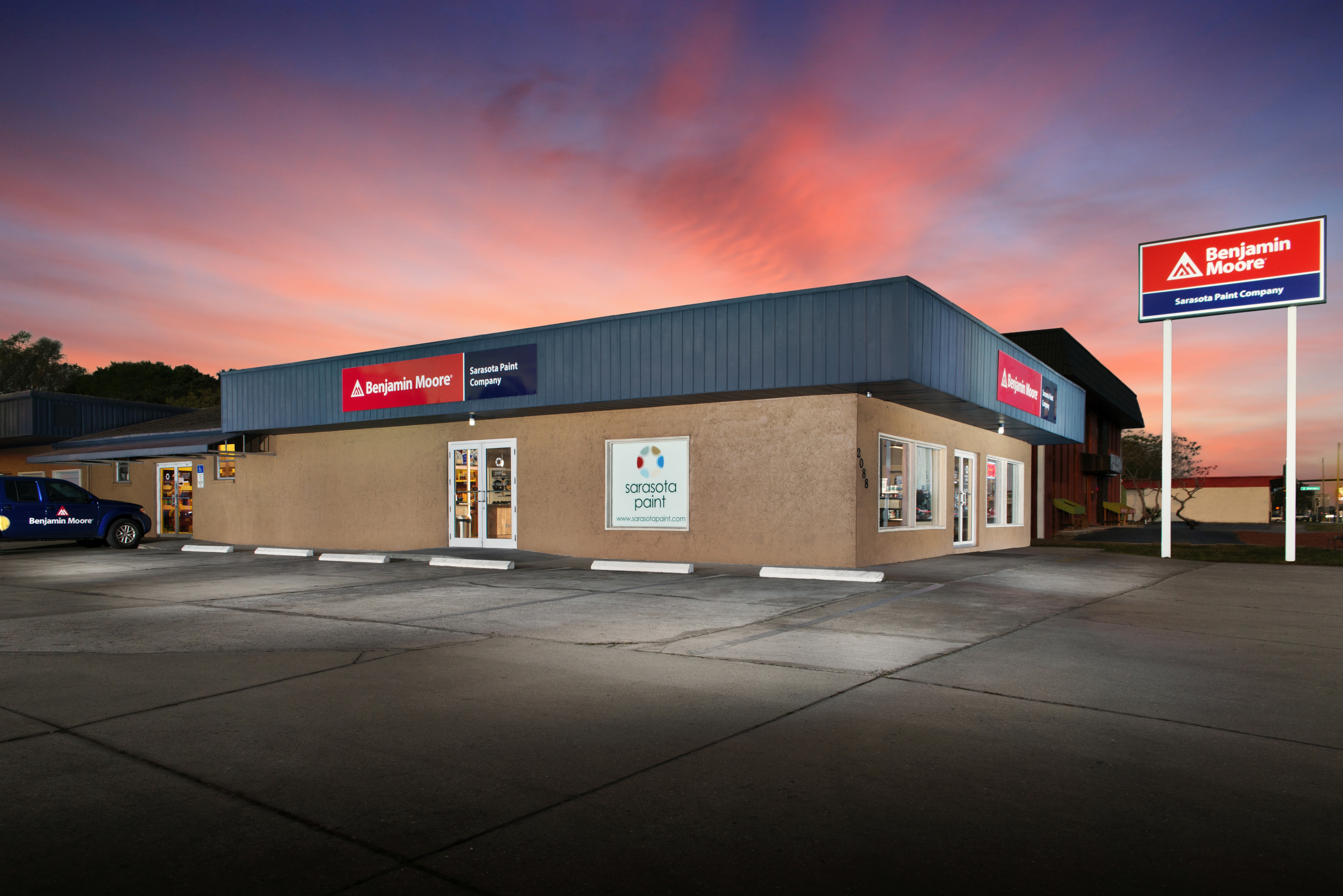 Sarasota Paint Company, First Benjamin Moore retailer to adapt 'Store of the Future' remodel (2016) Privately owned dealer.